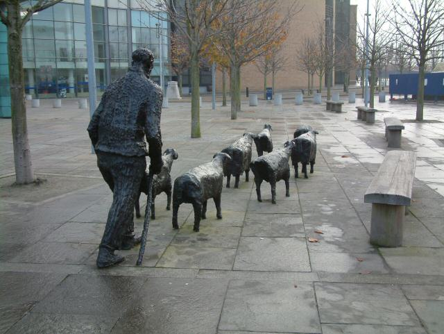 Shepherd and Sheep Sculpture Outside the Waterfront Hall, Belfast